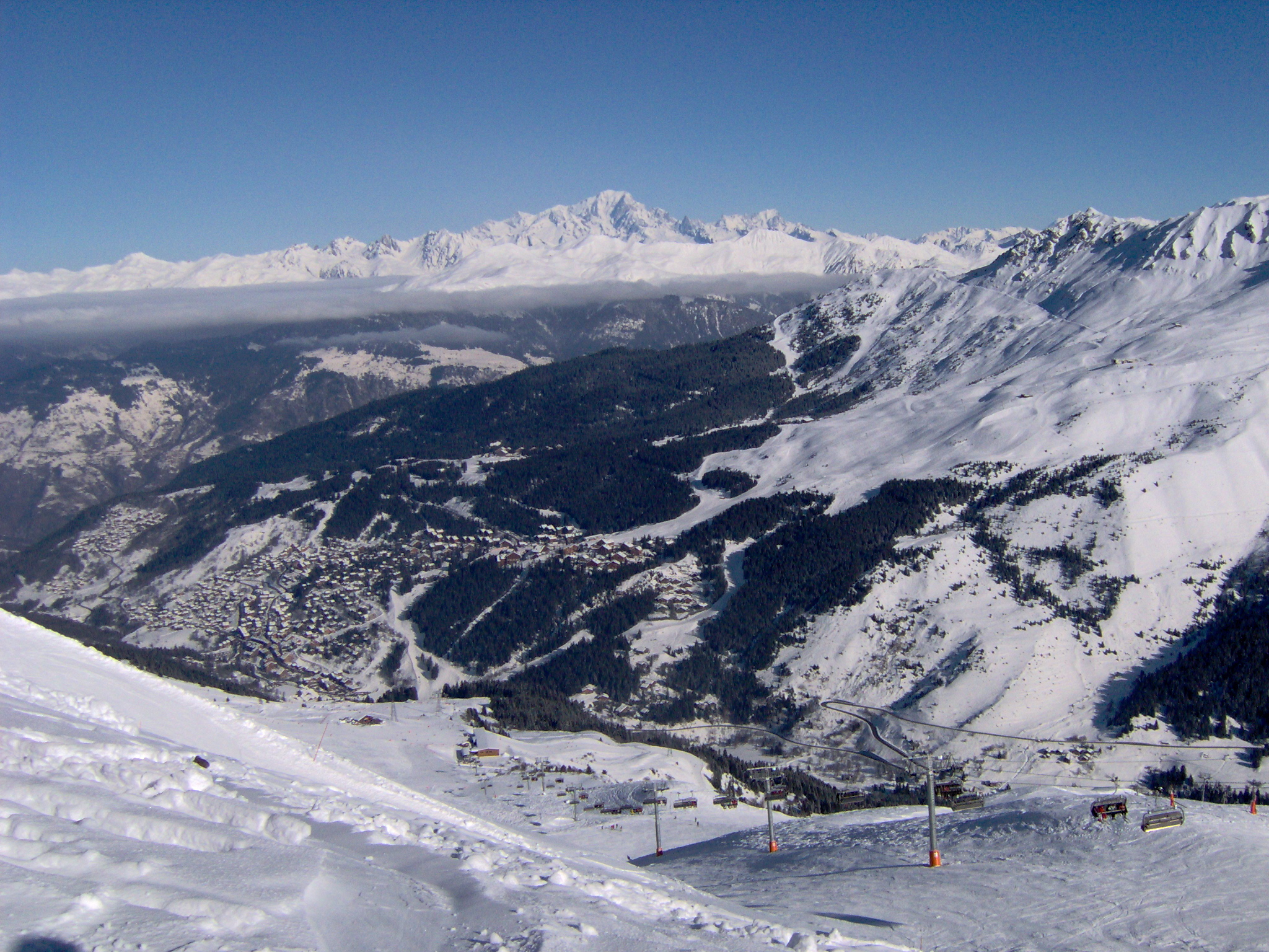 Meribel valley with Mont Blanc